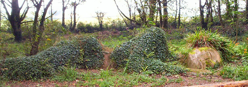 The Mud Maid at The Lost Gardens of Heligan, Cornwall, England